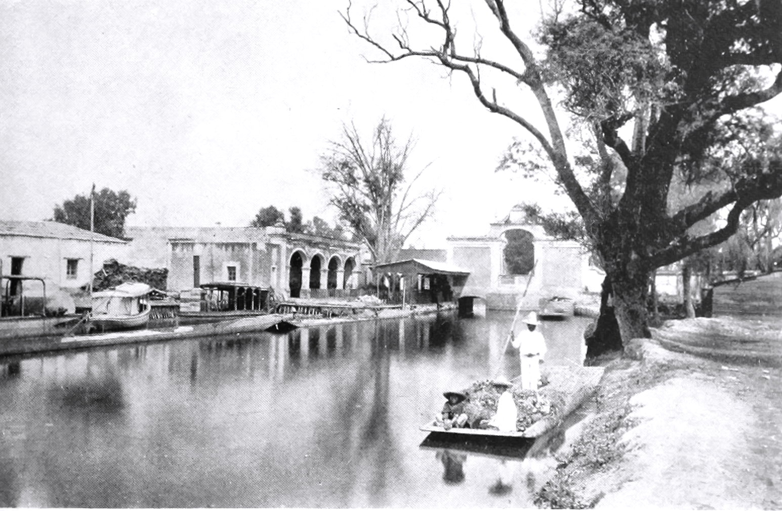 Each image number is the book's page number. The image name is the same as the image caption. Follow the image Link to the full book: "Mexico by Joseph Wharton"